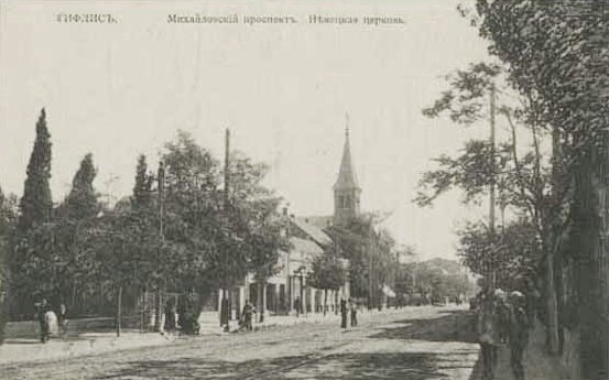 Mikhail Avenue in old Tbilisi